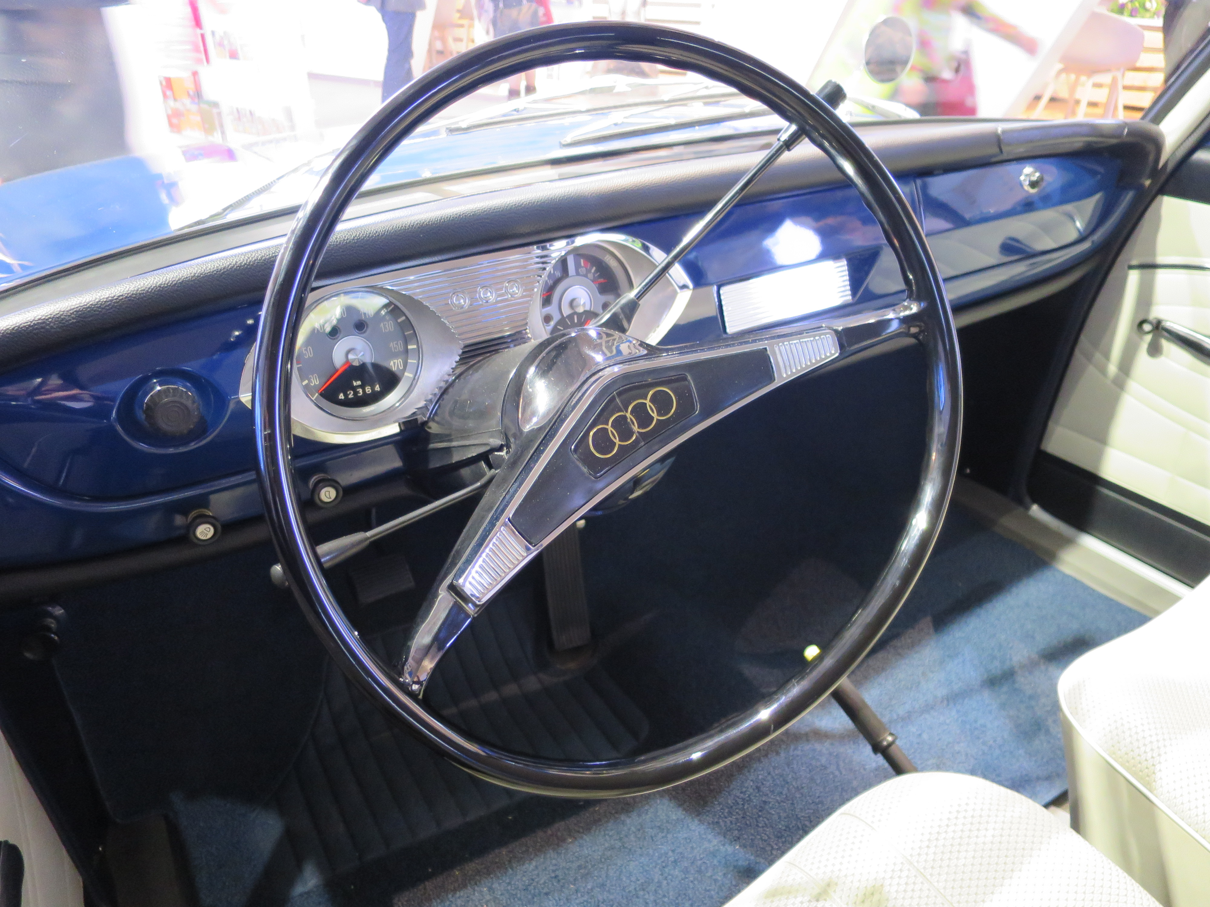 Audi 80 Variant (1967) ITB 2017.